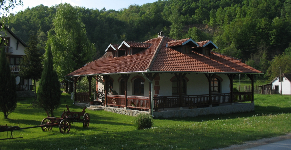 New house built in traditional serbian style in Kadina Luka in Ljig Municipality,on slopes of Suvoborski Rajac.